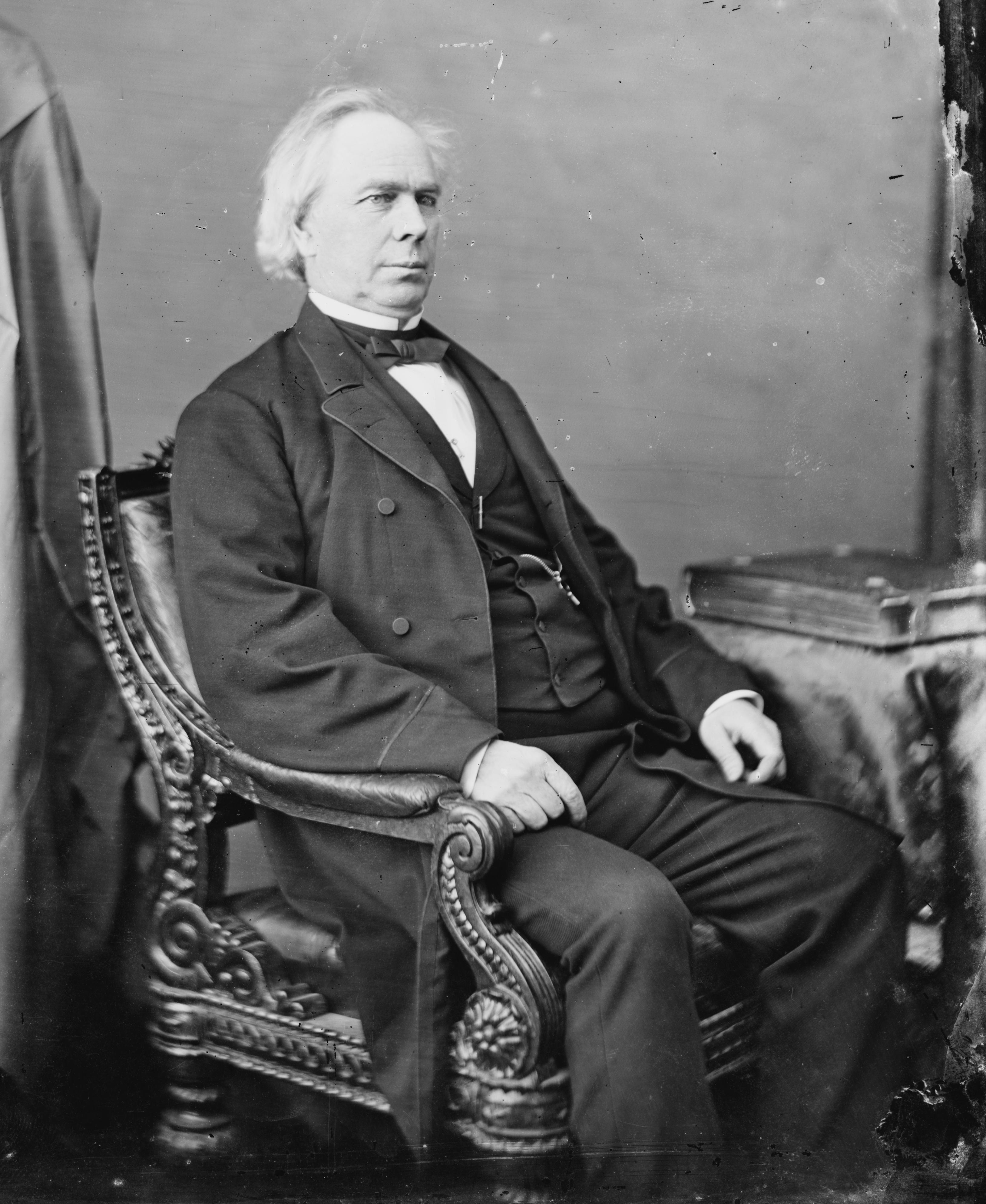 Ginery Twichell. Library of Congress description: "Hon. Ginery Twichell, of Mass."